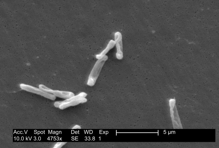 Obtained after an outbreak this micrograph depicts Gram-positive Clostridium difficile bacteria. These C. difficile organisms were cultured from a stool sample obtained during an outbreak of gastrointestinal illness, and extracted using a .1µm filter.